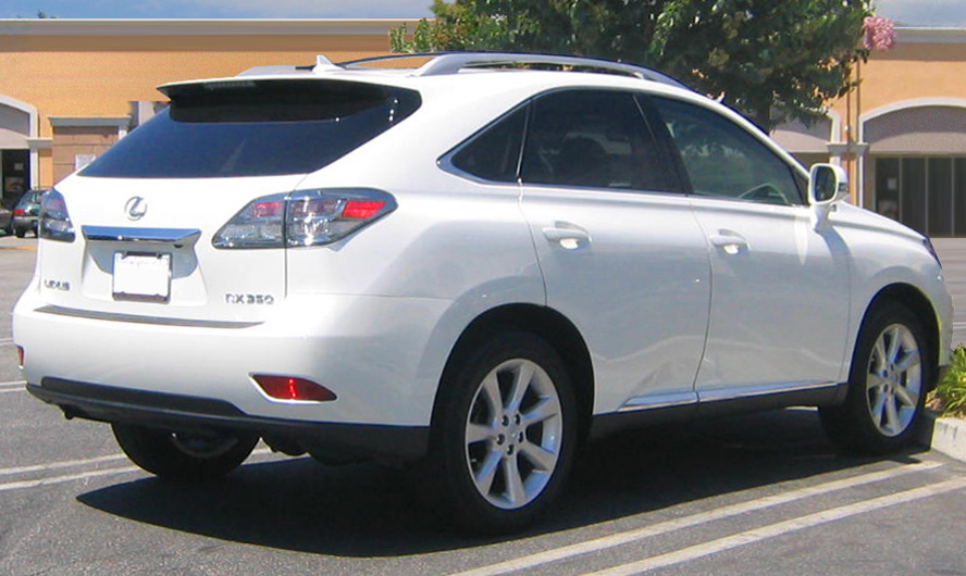 RX 350